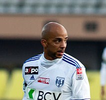 Peter Luccin (2011)